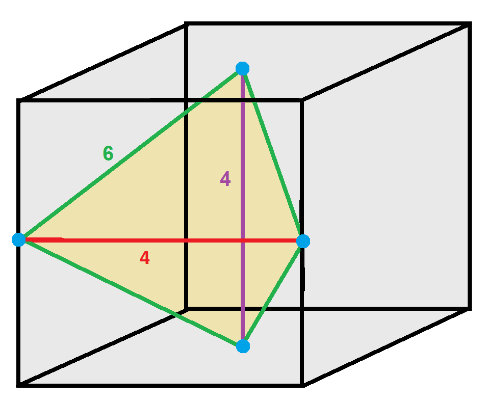 Oblate tetrahedrille cell in cube